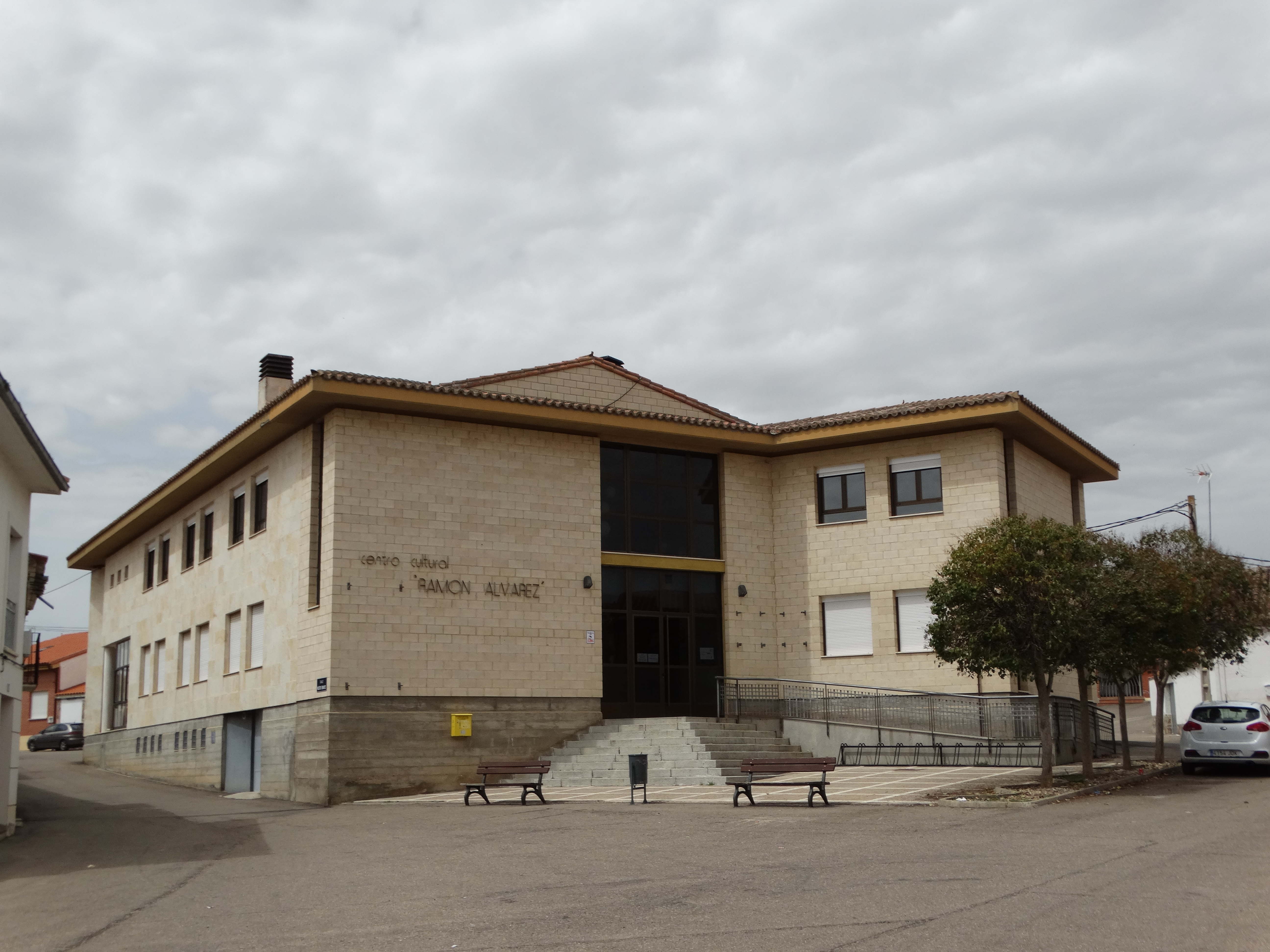 Coreses is a municipality and Spanish town in the province of Zamora, in the autonomous community of Castilla y León. It is located in the Tierra del Pan region, just over 15 km from Zamora. Church of Our Lady of the Assumption.